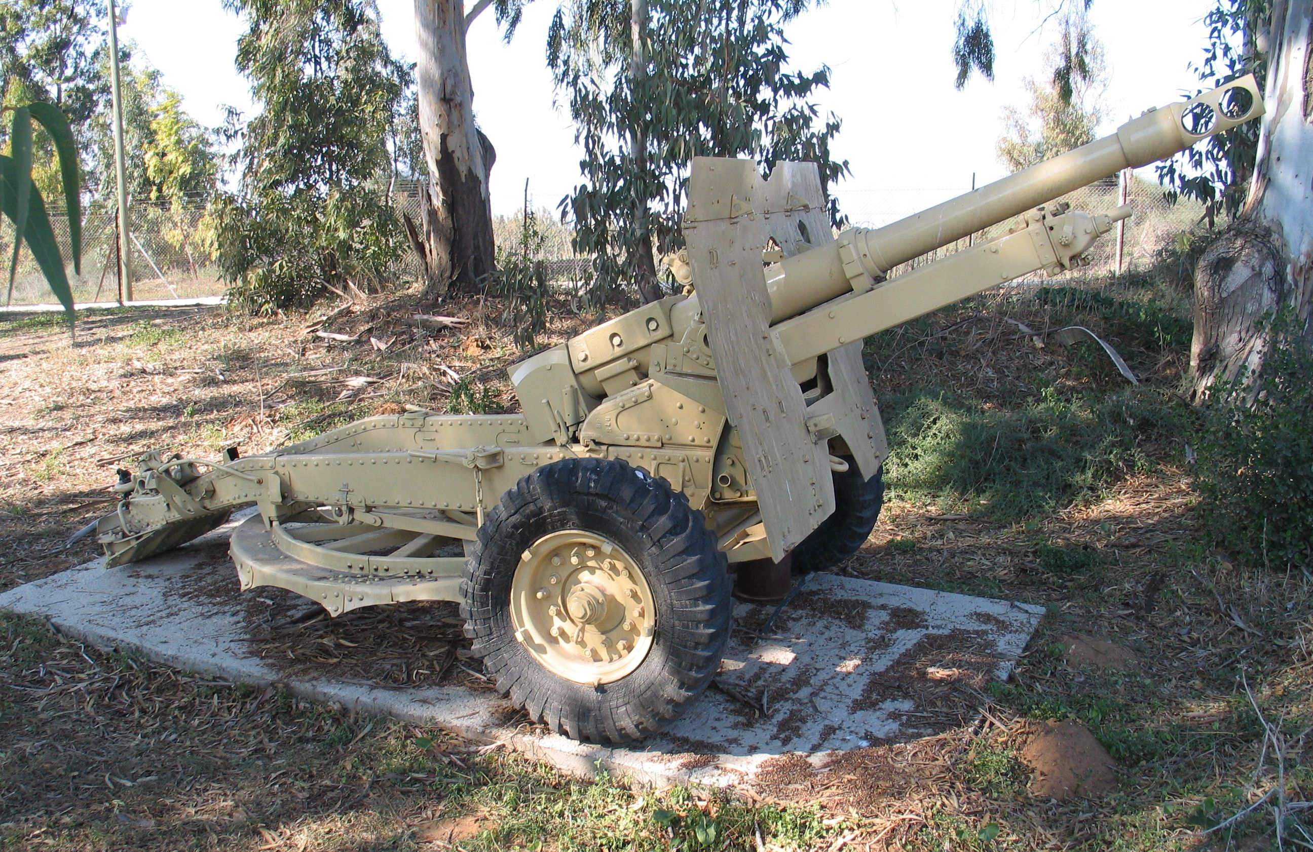 Ordnance QF 25 pounder gun-howitzer at Yad Mordechai battlefield reconstruction site.